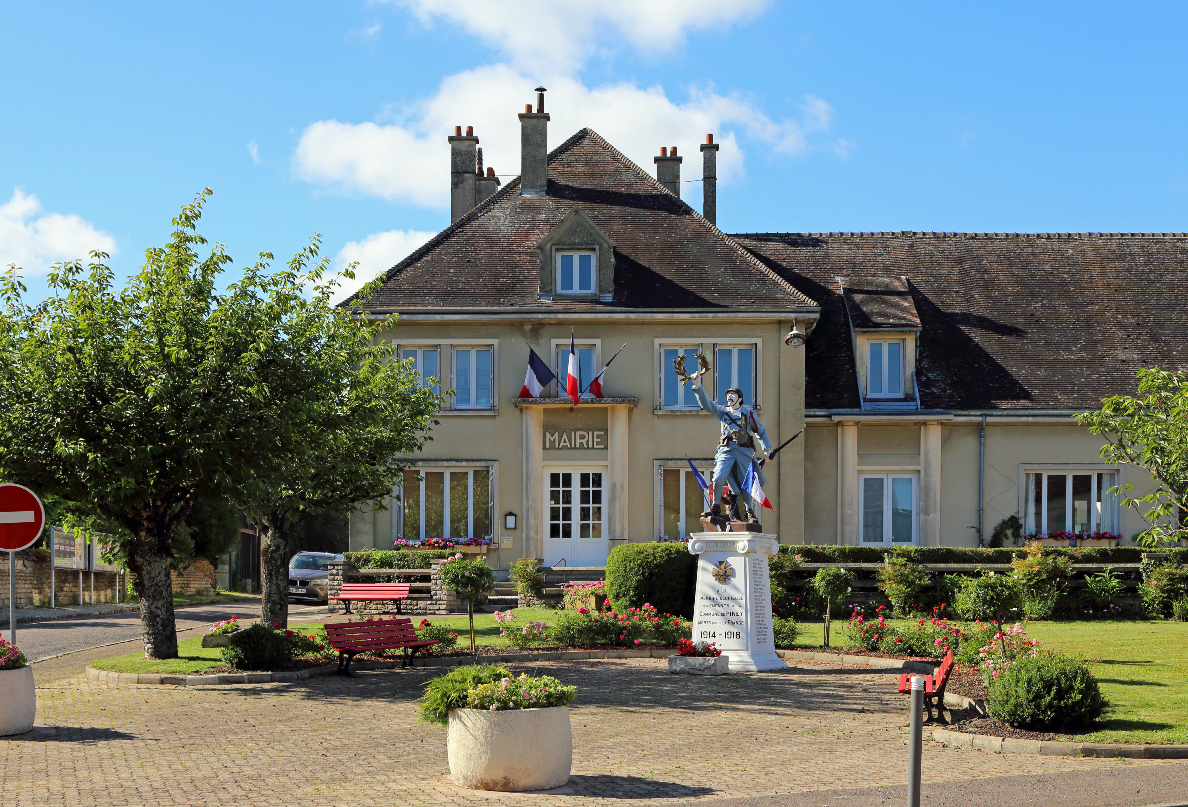 Piney (Aube department, France): town hall and war memorial